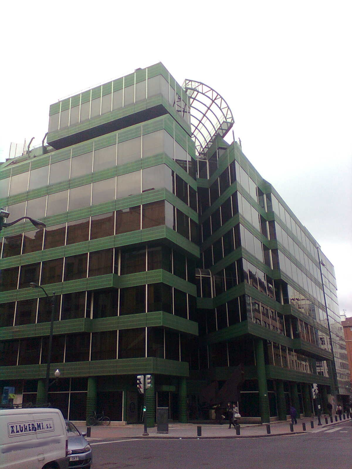 Chamber of Commerce in Bilbao (Basque Country).